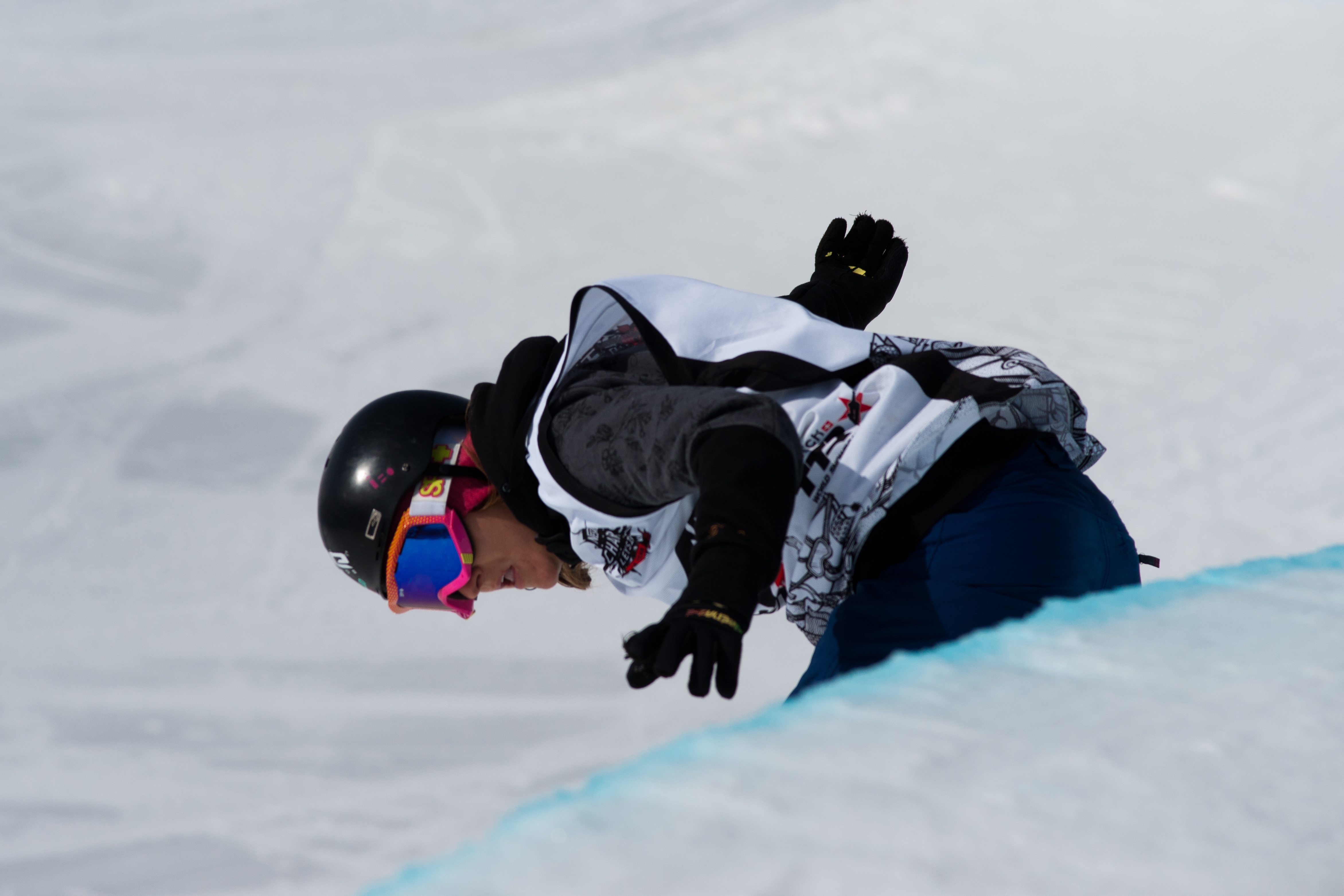 The making of this document was supported by Wikimedia CH. (Submit your project!) For all the files concerned, please see the category Supported by Wikimedia CH. 20th Leysin Nescafe Champs, 8th - 13th February 2011